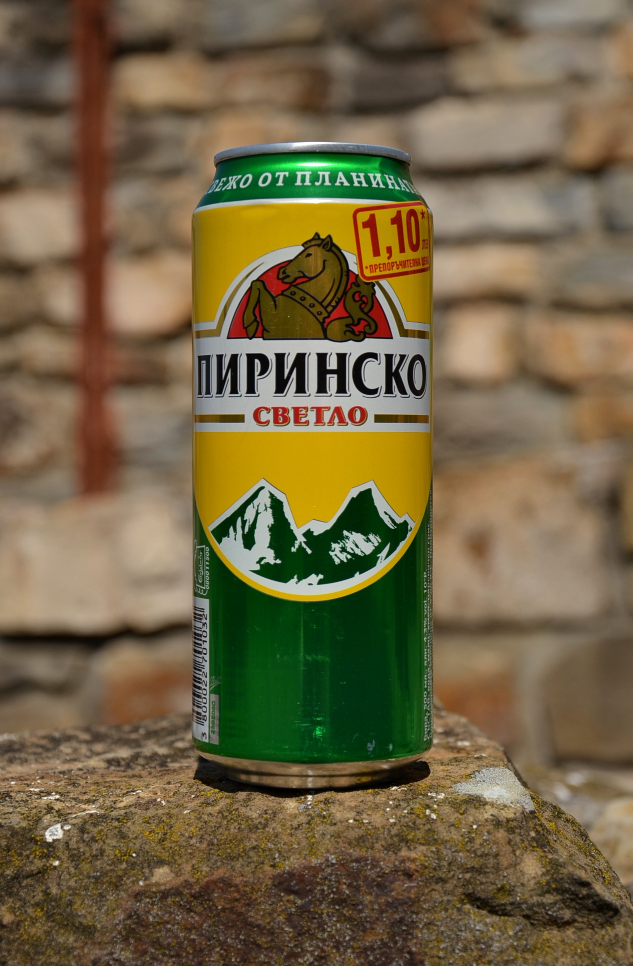 Pirinsko beer from Bulgaria